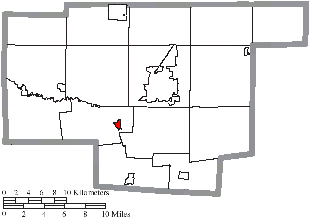 Map of the municipal and township boundaries of Marion County, Ohio, United States, as of the 2000 census, with the location of the village of Green Camp highlighted. Township borders are shown only in unincorporated areas in order to differentiate incorporated and unincorporated areas more clearly.